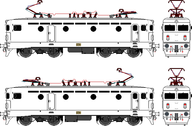 HŽ 1141 series locomotive